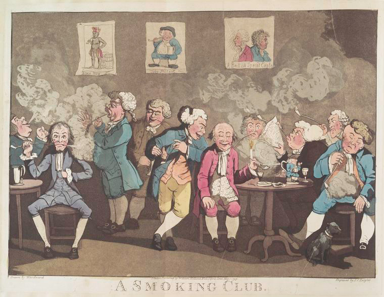 "A Smoking Club" - an illustration included in Frederick William Fairholt's Tobacco, its History and Associations.